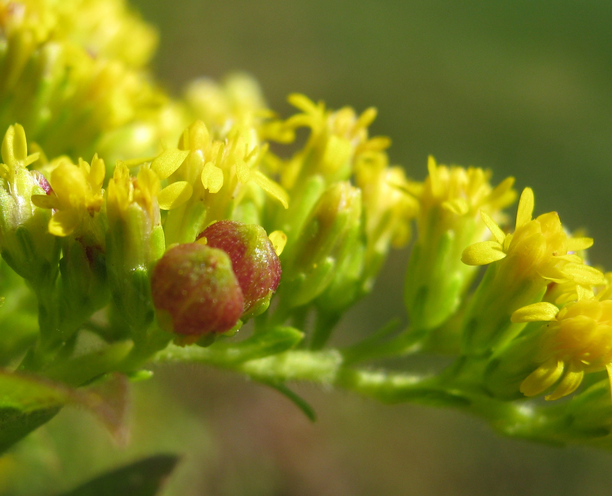 Galls in goldenrod of the midge Schizomyia racemicola. Horsham Trail, Montgomery County, Pennsylvania, USA.